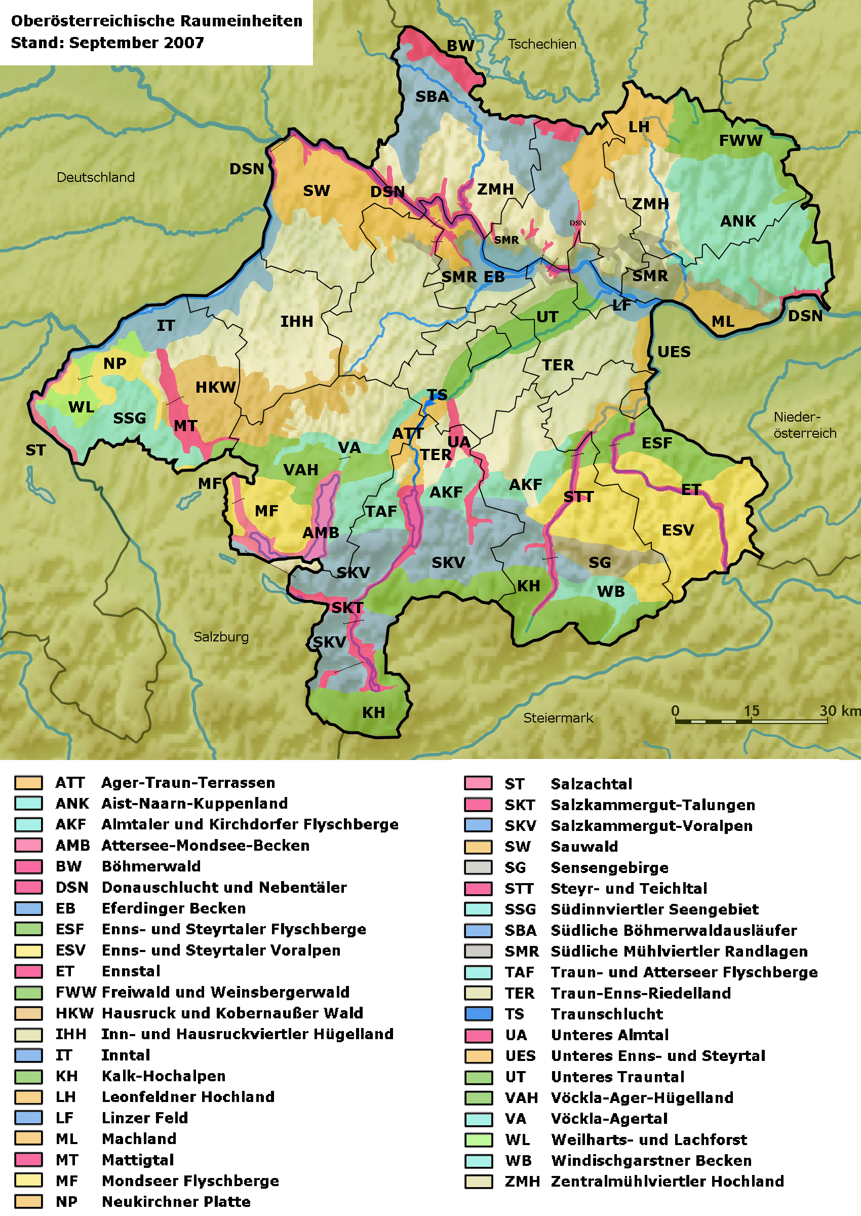 all 41 natural areas of Upper Austria